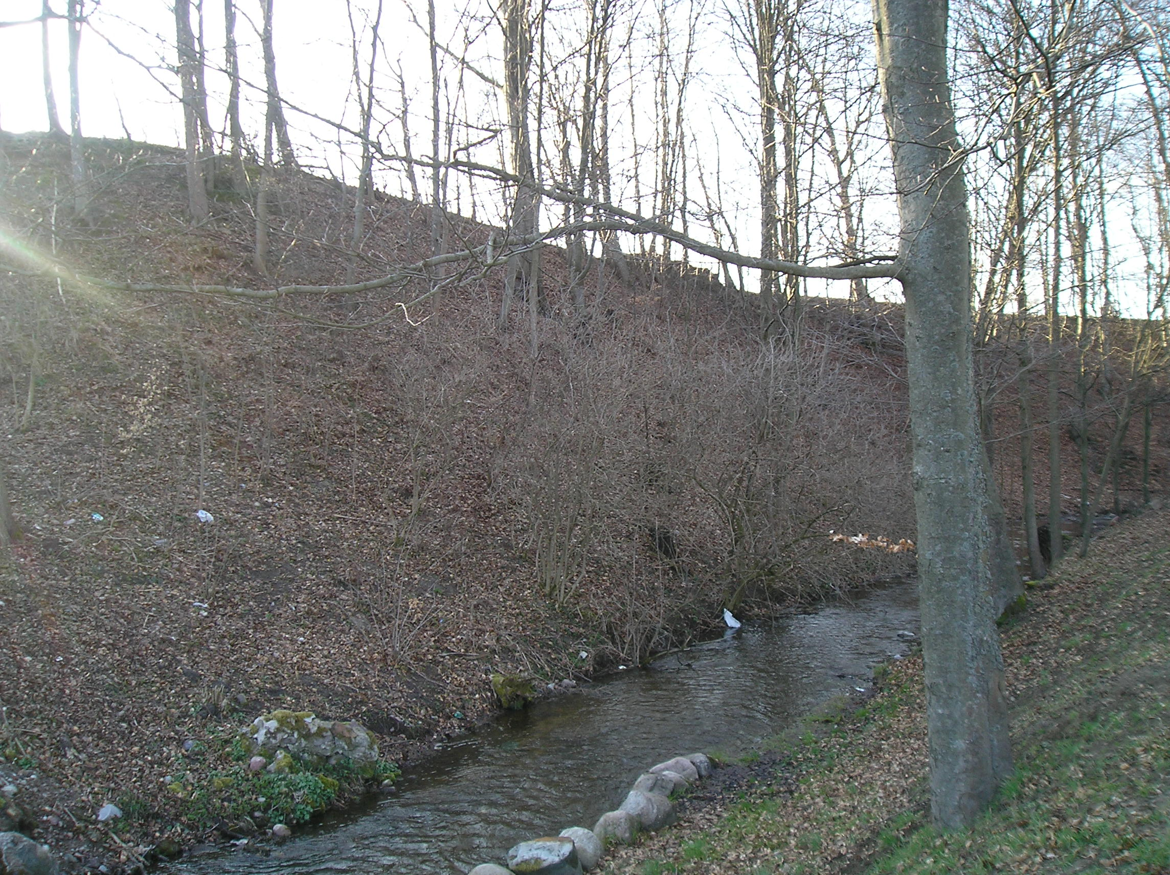 In the picture you can see Wieprza river in Wałdowo. Wałdowo is located in Poland.